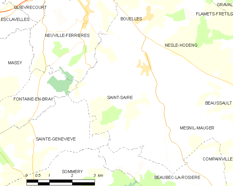 Map of French municipality Saint-Saire